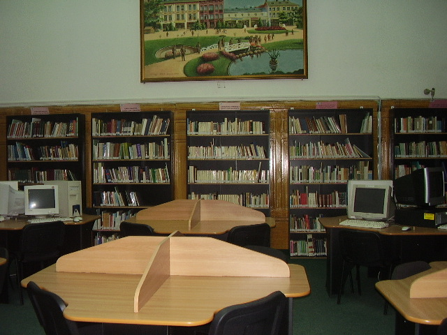 Reading room no. I located on the ground floor of the central building of "Dunarea de Jos" University Library of Galati